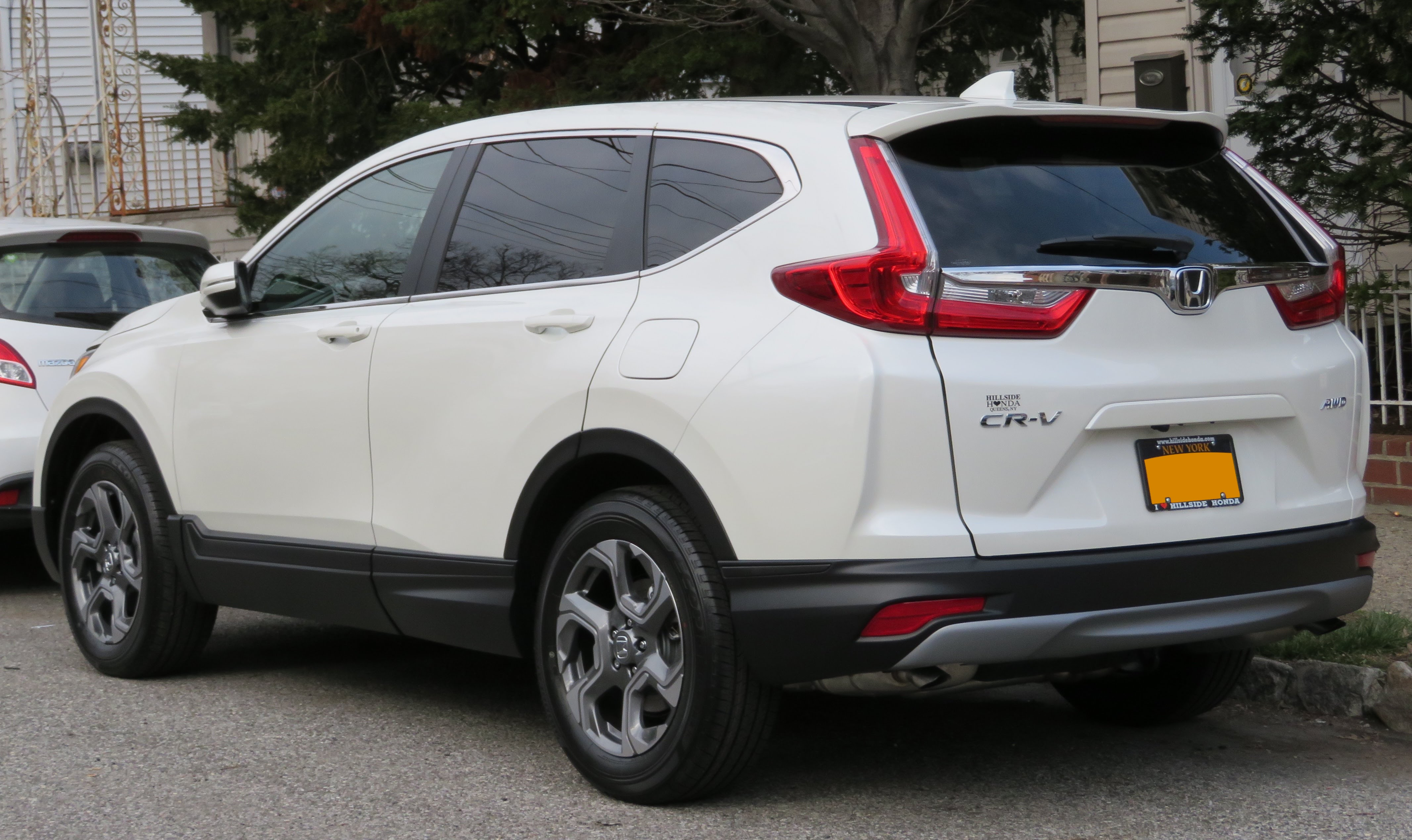 In Queens, New York